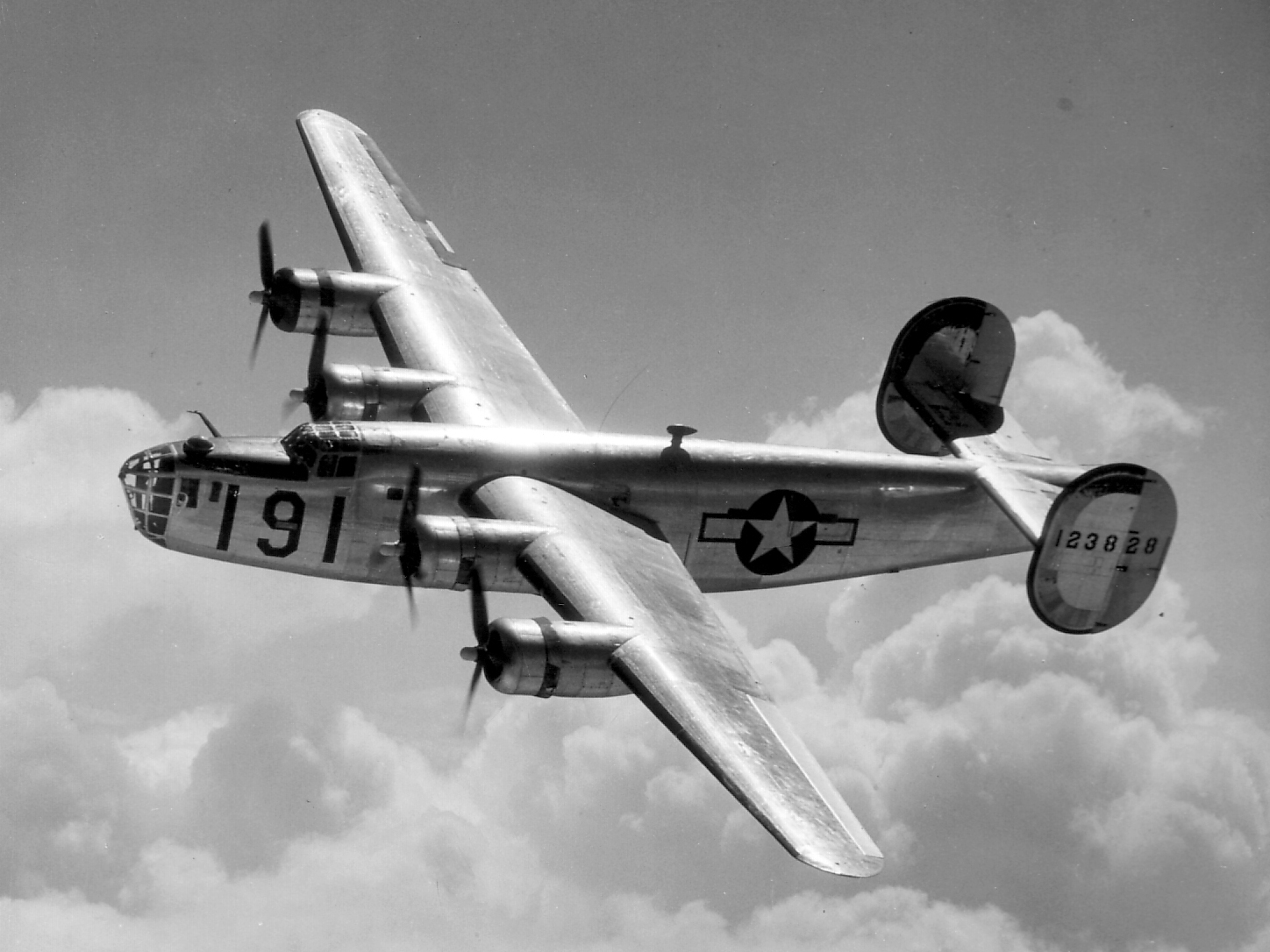 A Consolidated B-24 Liberator from Maxwell Field, Alabama, four engine pilot school, glistens in the sun as it makes a turn at high altitude in the clouds.